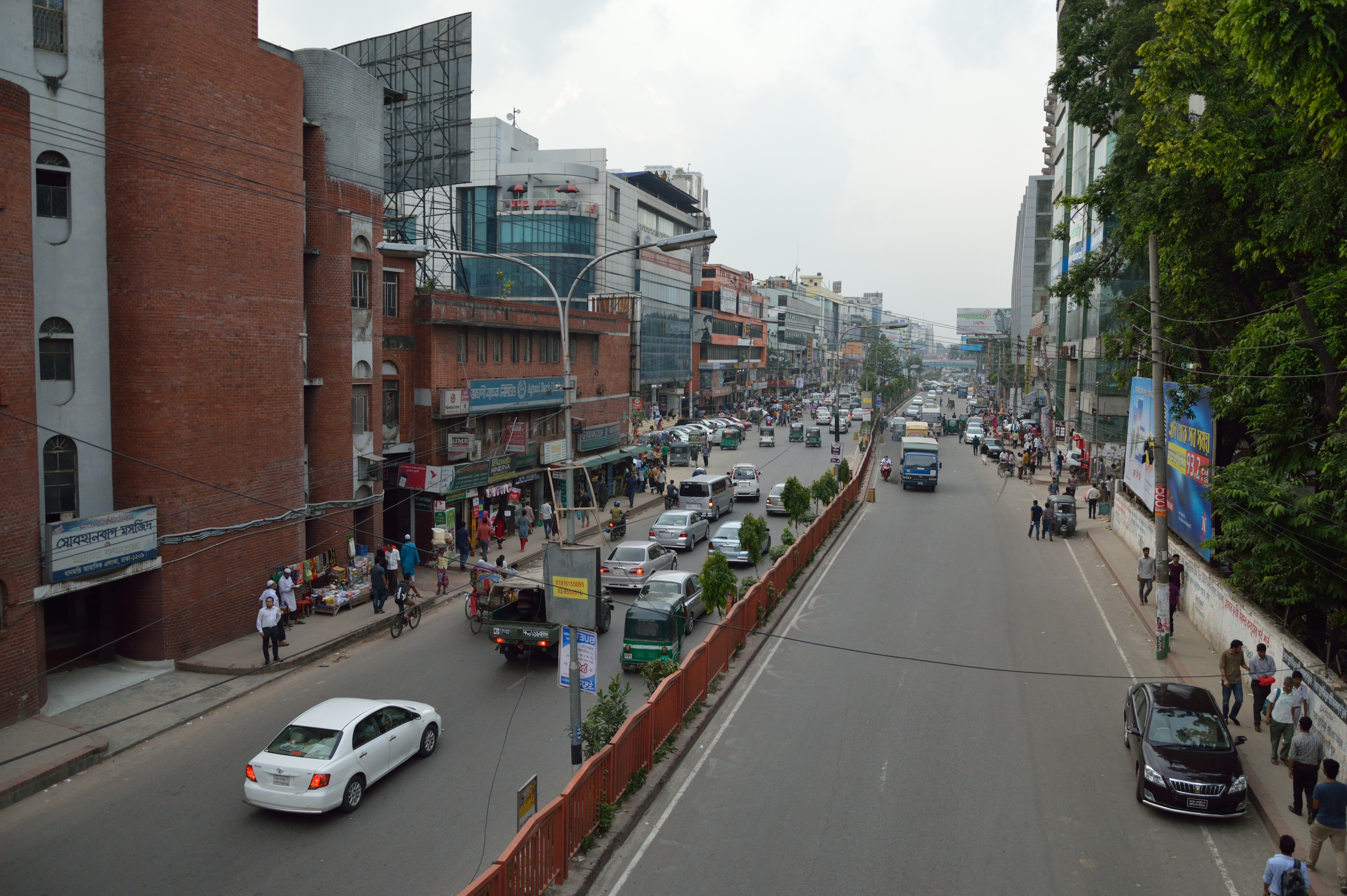 Photographed in Dhaka, Bangladesh.